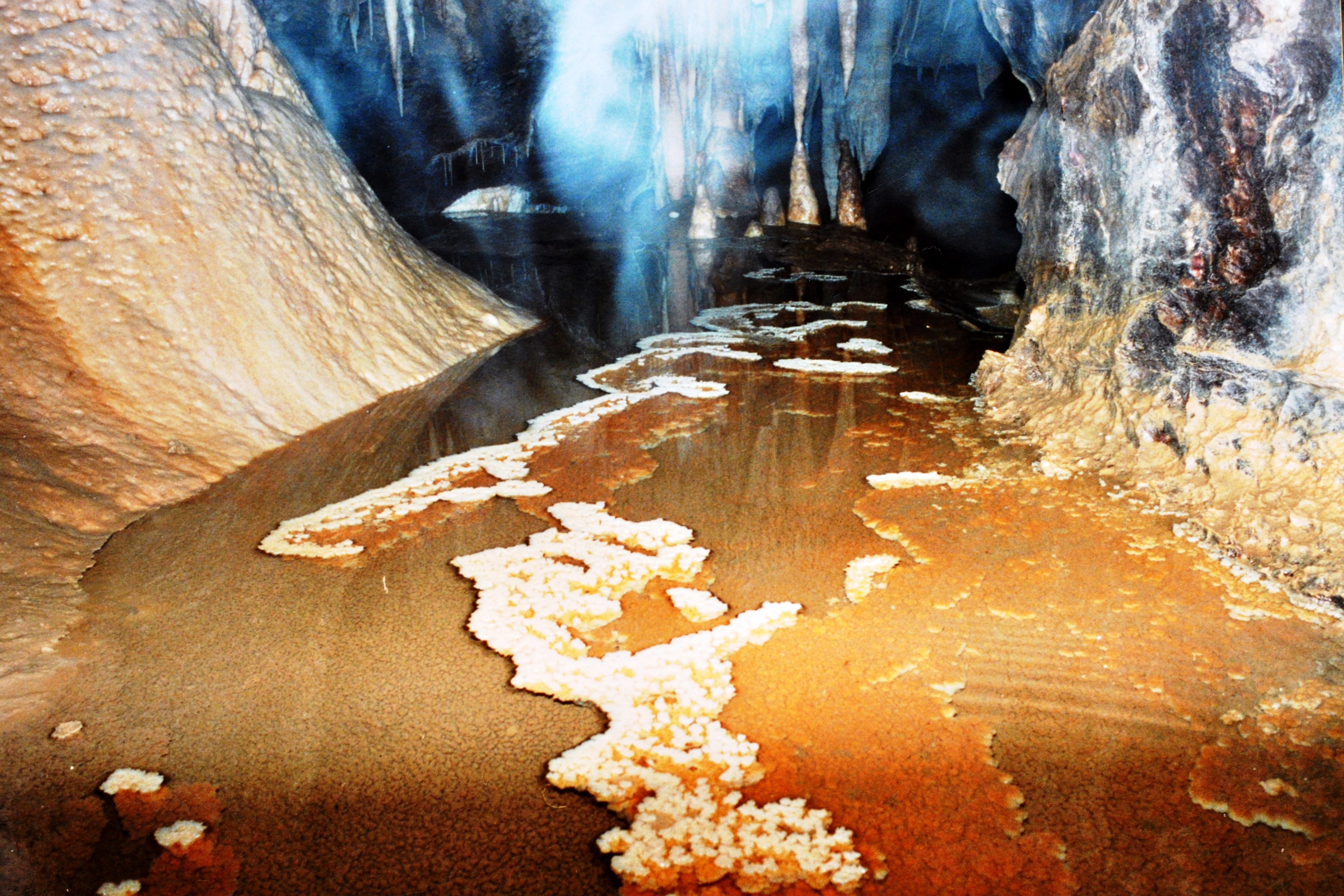 Great Cave in Rugova Gorge is a rare beauty of the underground terrains in Kosovo. It is estimated that this cave is one of the most attractive natural objects for the conduction of research and tourist expeditions, not only in The Cursed Mountains, but also in the Western Balkan region. Grand Canyon Cave is located on the eighth kilometer of Rugova, about 90 meters above the river bed Lumëbardh in Peja, while the cave entrance is located at 637 meters altitude. On February 2011, in the cave was conducted a research expedition. The expedition was organized as a result of cooperation between the Association of Speleologists "Aragon” from Peja, Environmental Protection Agency of Kosovo and a team from the Republic of Slovakia. During this expedition new corridors and galleries of the cave have been explored. The length of the corridors and galleries explored is about 13,450 meters. Corridors and galleries of the Great Cave are rich in crystals of rare scientific and touristic value. It is created by water flow in Triassic rocks. Inside the cave there are several rivers and underground lakes of different shapes and sizes, which have contributed to the expansion of the corridors and underground galleries. It is estimated that Grand Canyon Cave has rare natural, scientific, hydro, biological and educational and touristic values.